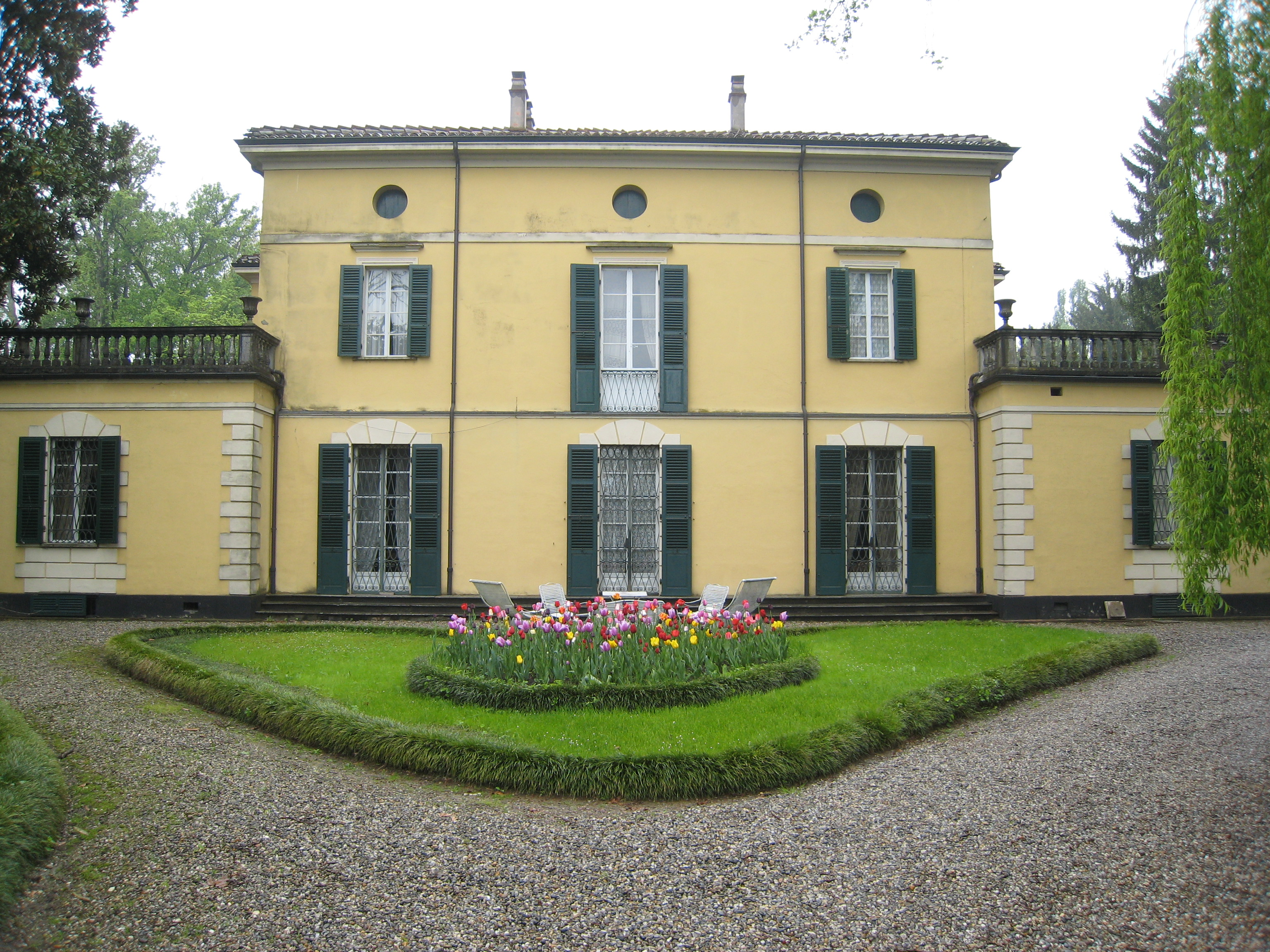 Italy - Sant'agata - The country house of Giuseppe Verdi